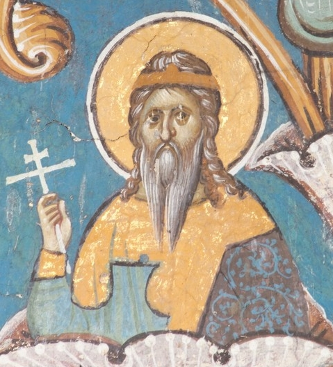 Detail of fresco Loza Nemanjića, Vladislav (son of Dragutin), Visoki Dečani, Serbia.